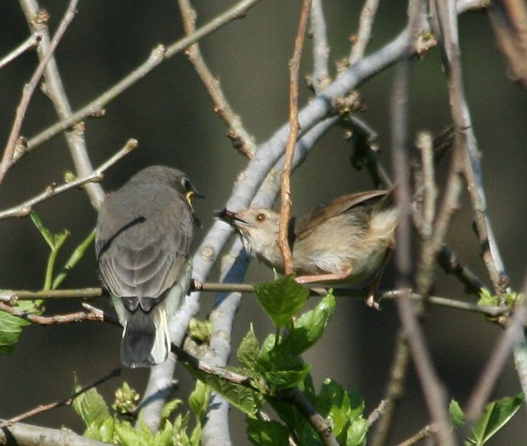 Location: Pietermaritzburg, South Africa